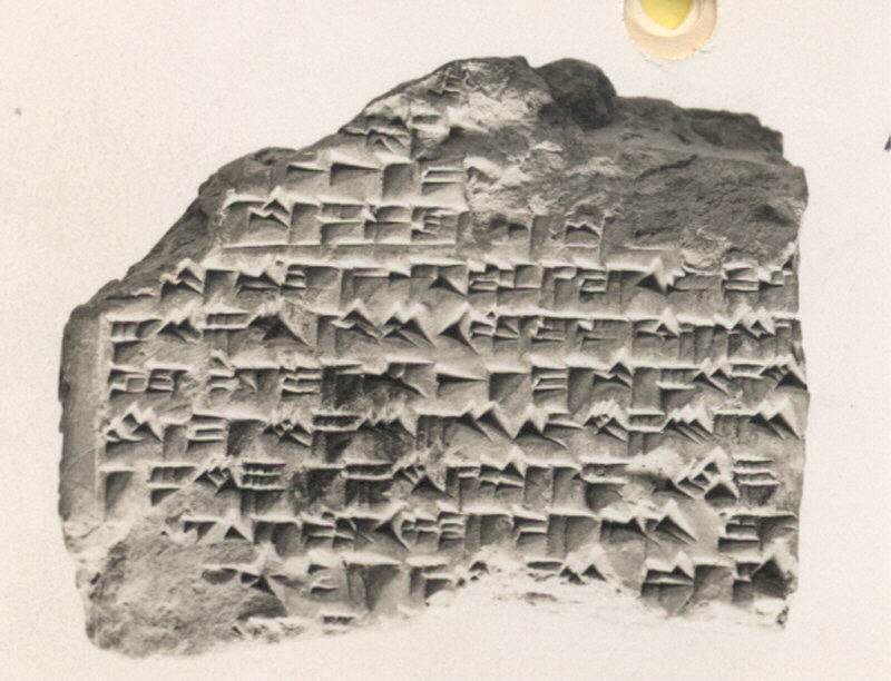 Cuneiform tablet; Clay-Tablets-Inscribed